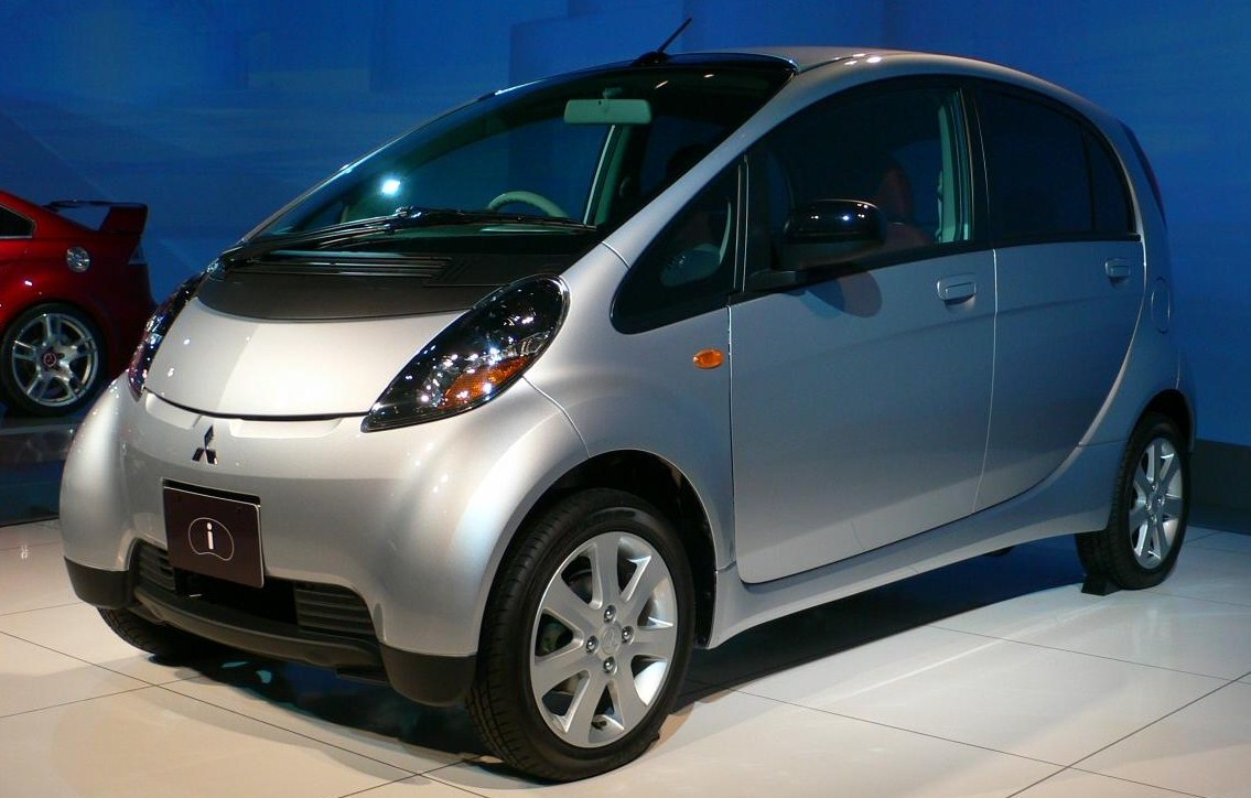 Mitsubishi_i taken in The 39th Tokyo Motor Show